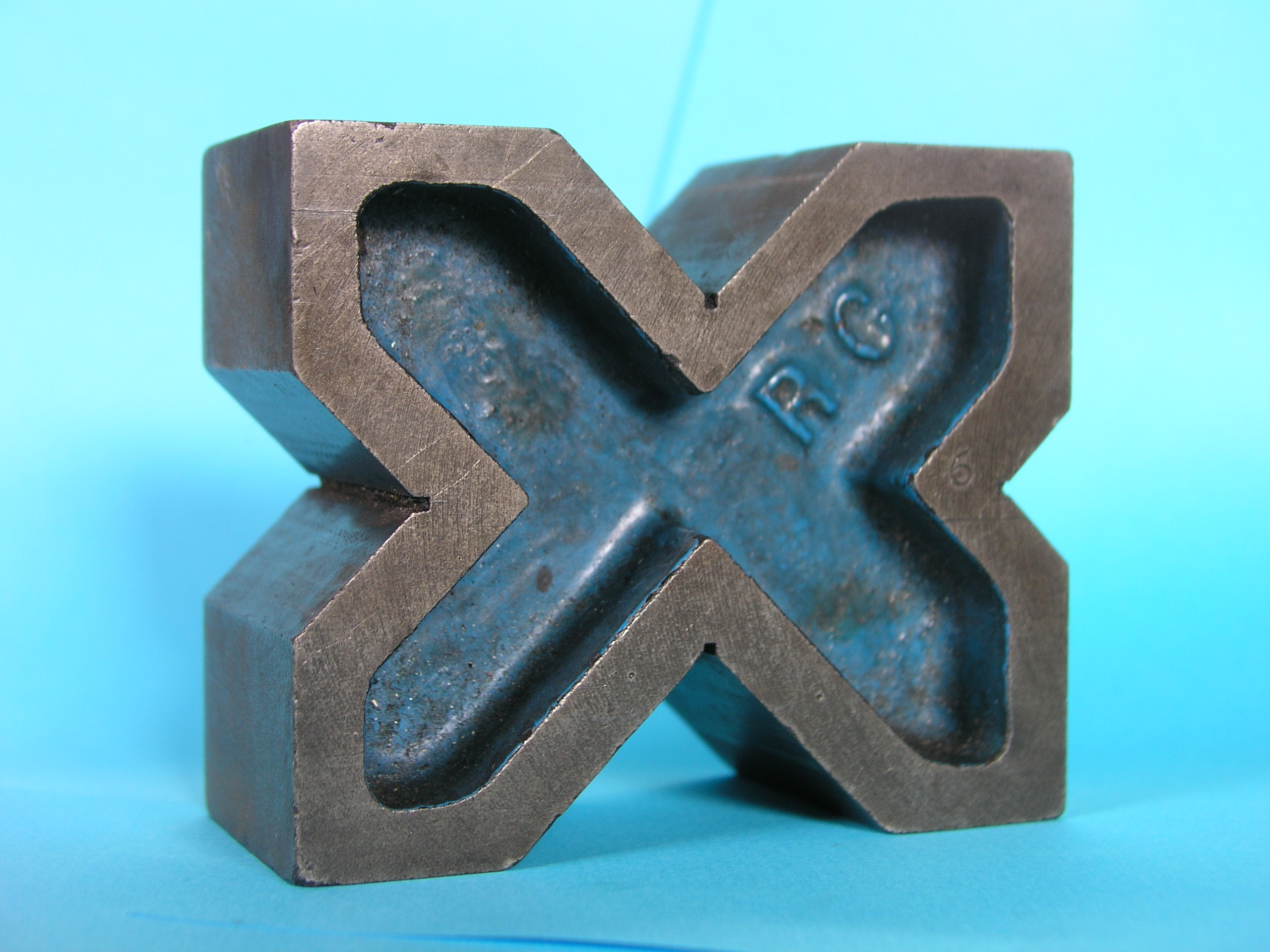 V-block